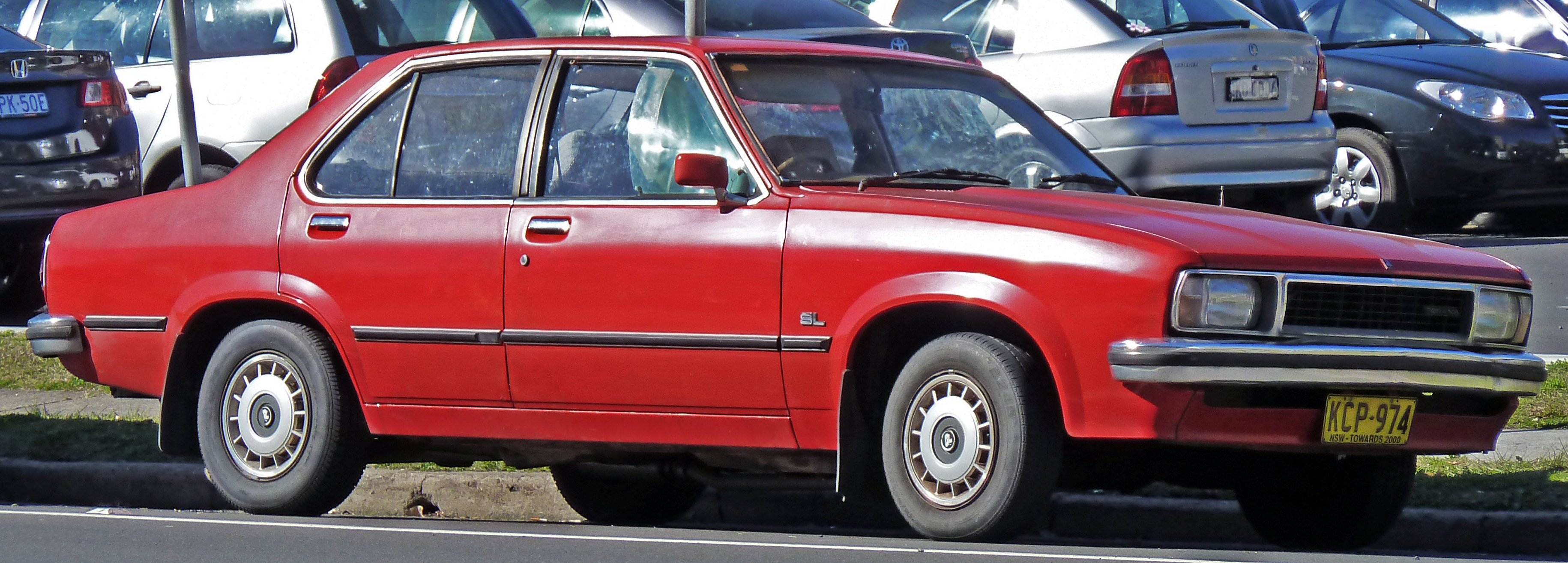 1979 Holden UC Torana SL sedan. Photographed in Hurstville, New South Wales, Australia.